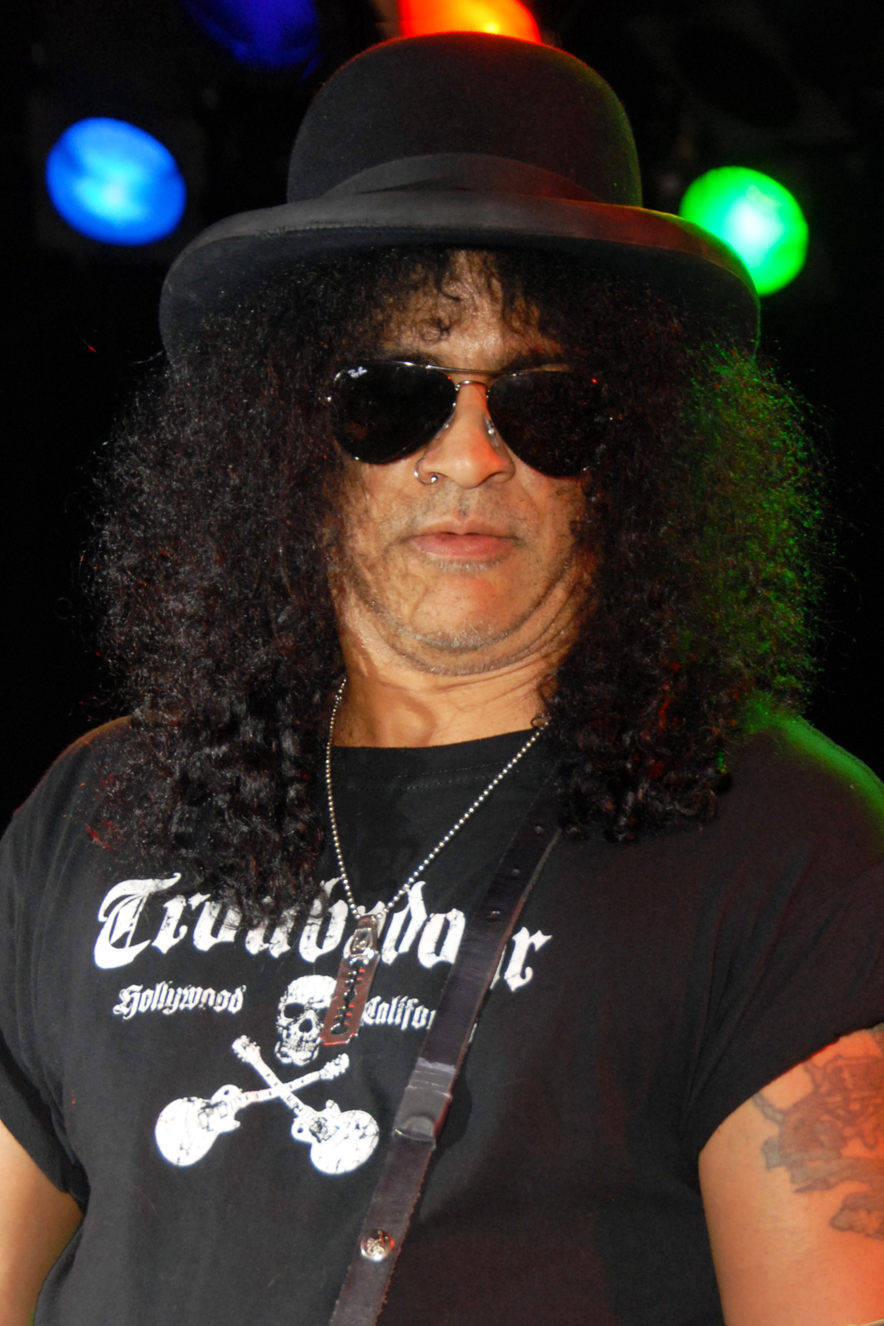 Slash performing at The Roxy, West Hollywood, California on October 11, 2009 - Photo by Glenn Francis of